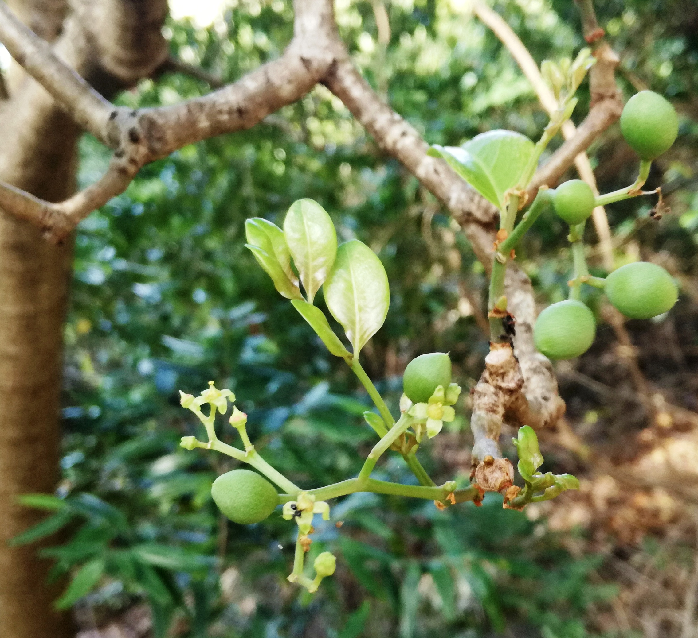 The Mauritian Baobab - Cyphostemma mappia - in habitat in south west Mauritius.